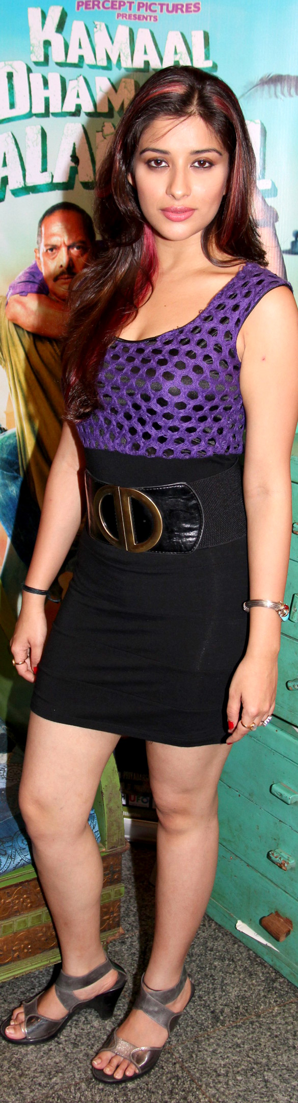 Madhurima Banerjee